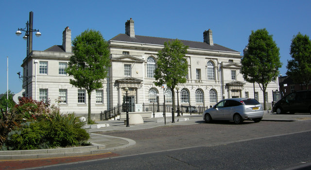 Town Hall Formerly the West Riding Police Station. Converted into the Town Hall when the old building in the town centre was sold off for conversion into a shopping mall.